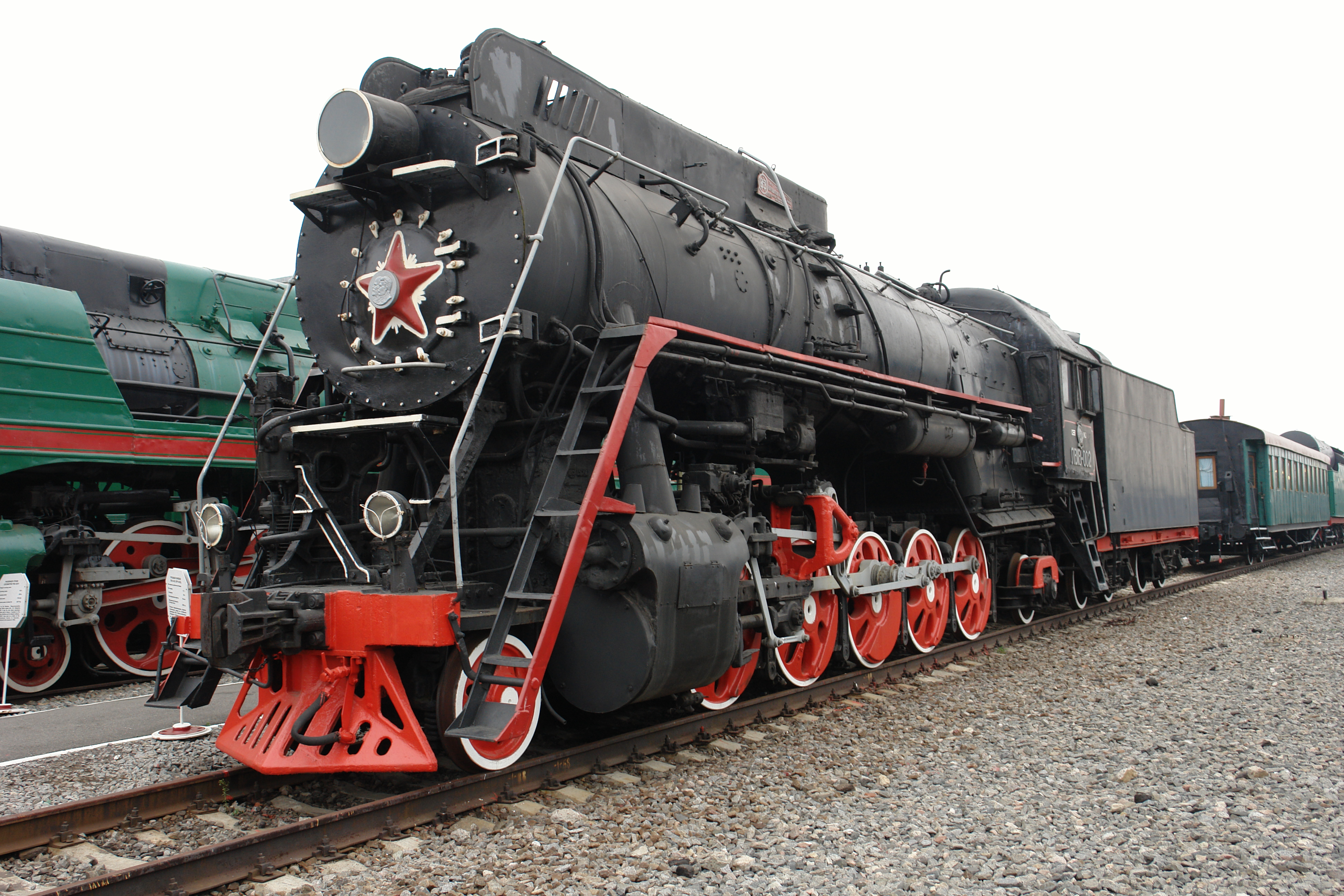 Cargo locomotive OF LVY8-002 (ORY8-002) Weight steam in working order:without tender12 tonsstenderom130 tonnesKonstruktsionnaya speed80 km / h.maximum power at the rim of the wheel2600 PS Built in the Voroshilovgradskim Parovozostroitelnym factory. The October Revolution of 1953. Served at Moskovsko-Ryazanskoy and Northern Iron roads until 1982. Ispolzovalsya as boiler enterprise "Komiavtostroy." Delivered to the museum in the city of Syktyvkar, in 1996. Railway Technology Museum, St. Petersburg